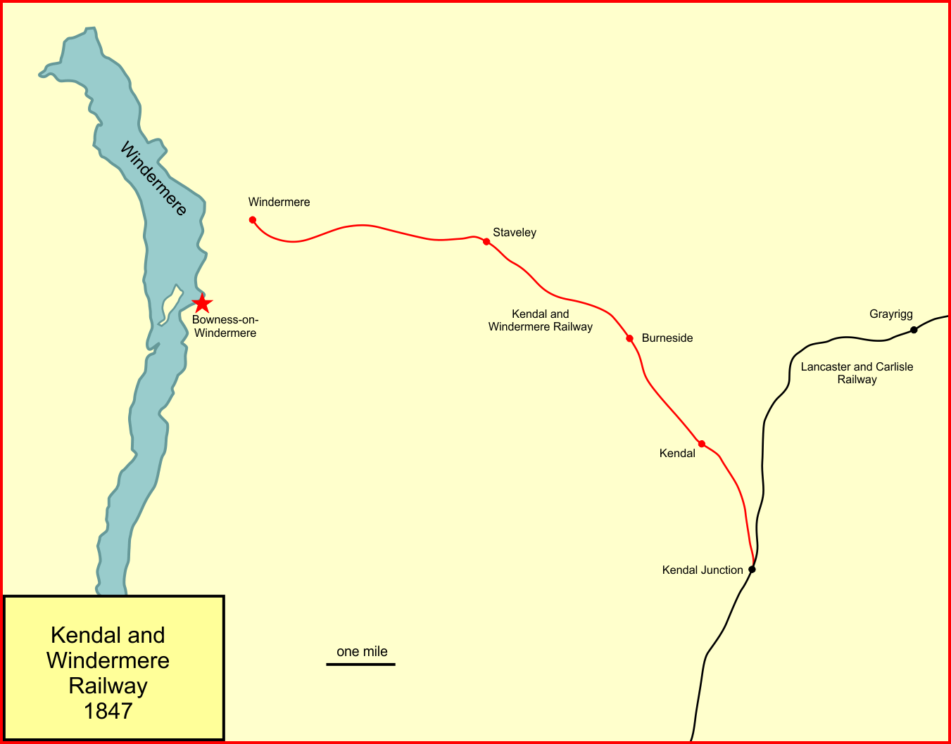 Map showing the route of the Kendal and Windermere Railway in Cumbria, England, as at 1857